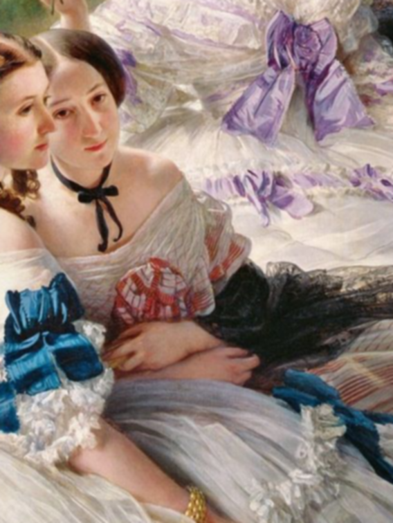 Portrait of Louise Poitelon du Tarde, by Franz Xaver Winterhalter (detail of "The Empress Eugenie Surrounded by her Ladies in Waiting").